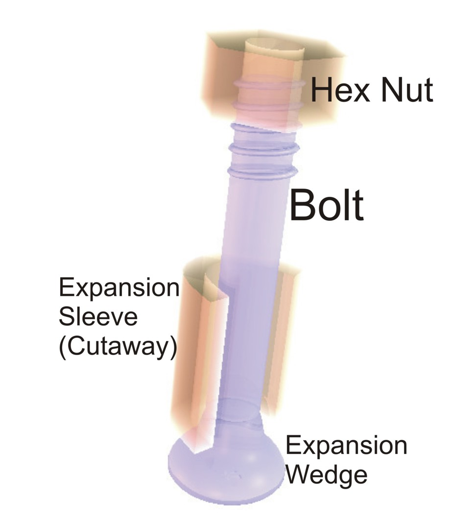 An expansion bolt/expansion anchor/wedge anchor cutaway. Created using Art of Illusion.